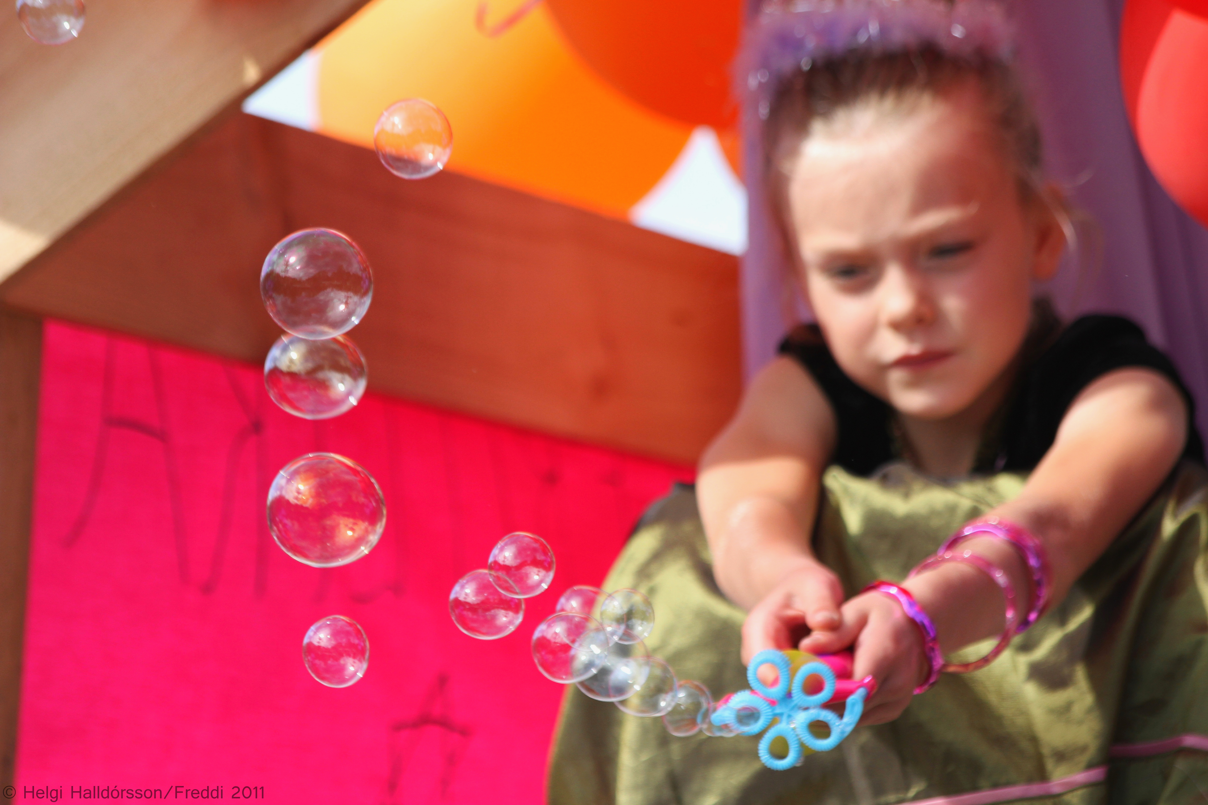 The Powerpuff Girl